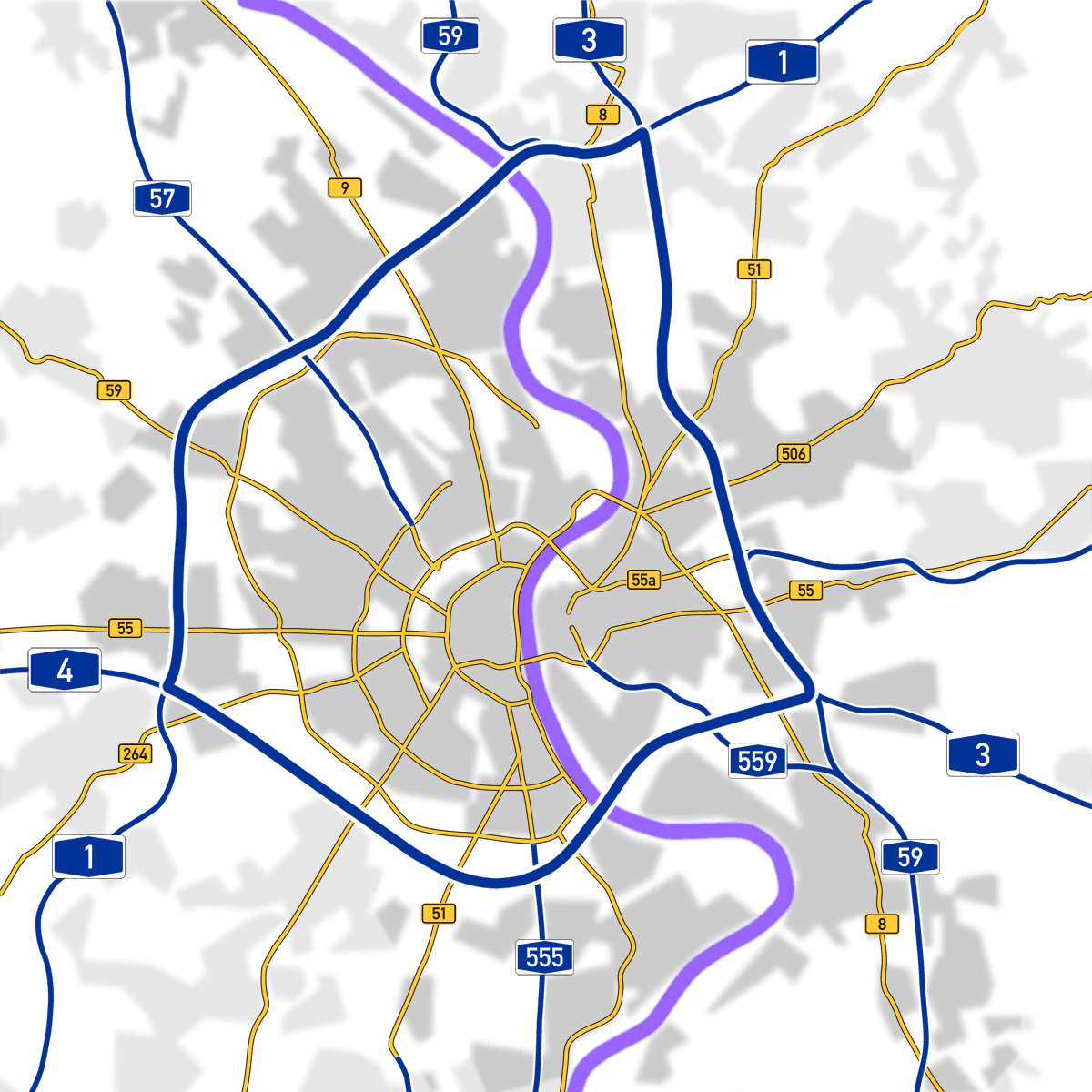 Map of the Autobahns and Federal Roads in the Cologne area - Cologne Beltway